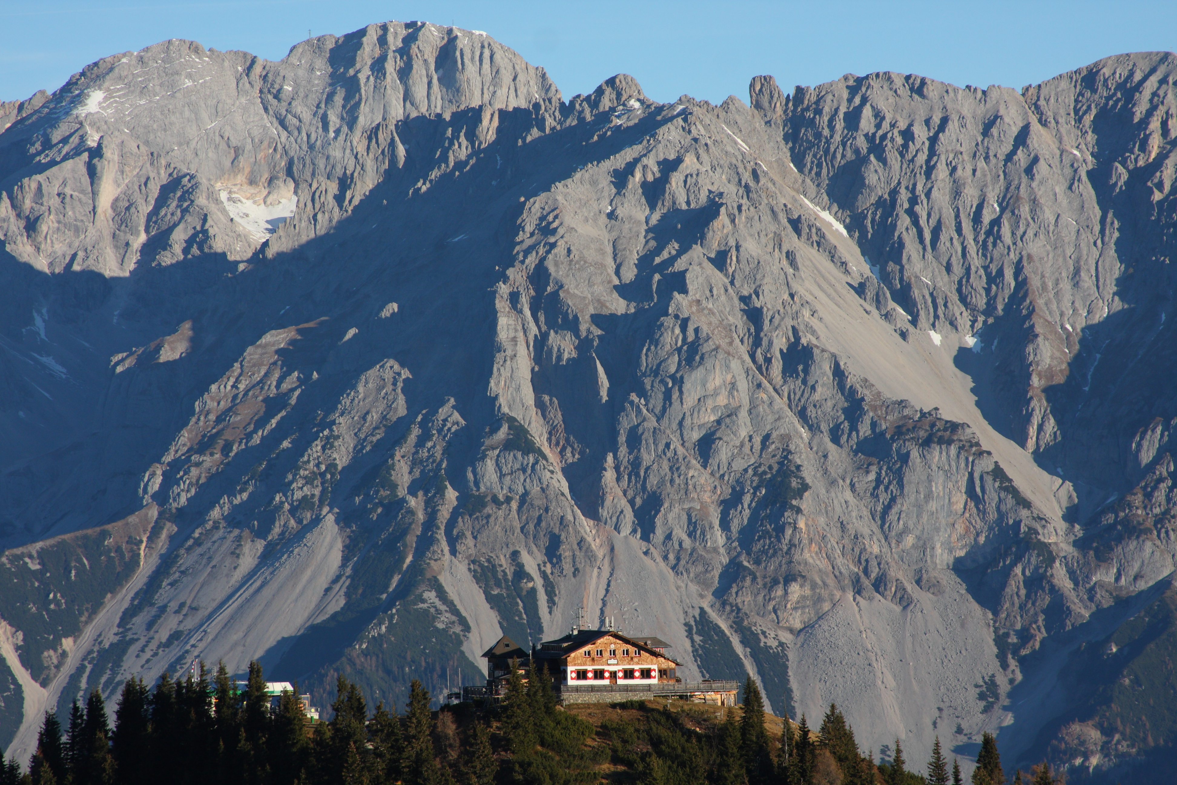 Hochwurzenhütte , Styria, Austria